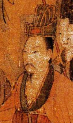 Cao Zhi, a portrait, a part of "Goddess of Luo River" by Gu Kaizhi, Jin Dynasty, in china.